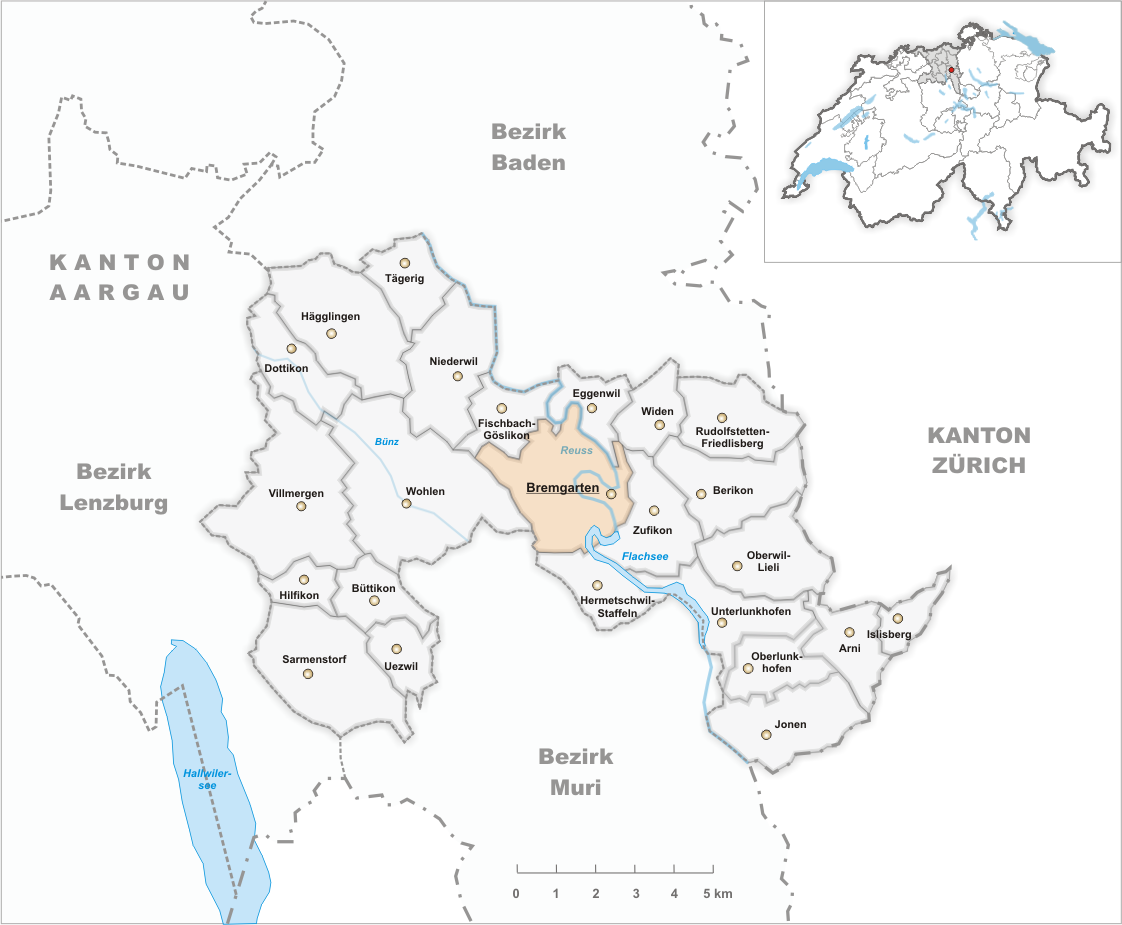 Municipality Bremgarten